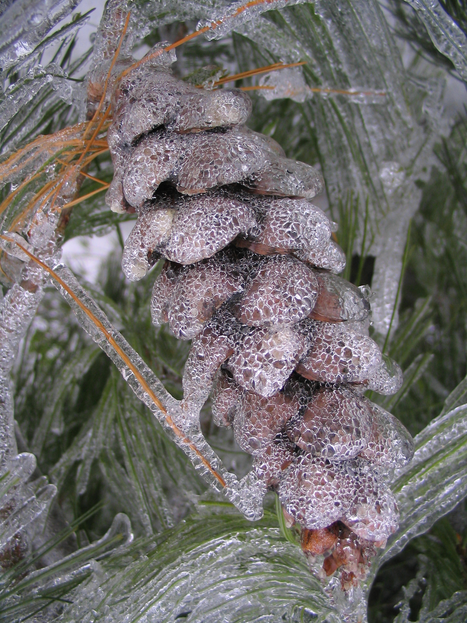 A frozen pinecone of the Pinus Strobus variety, or Eastern White Pine. The cone was coated in ice following an ice storm in the midwest.